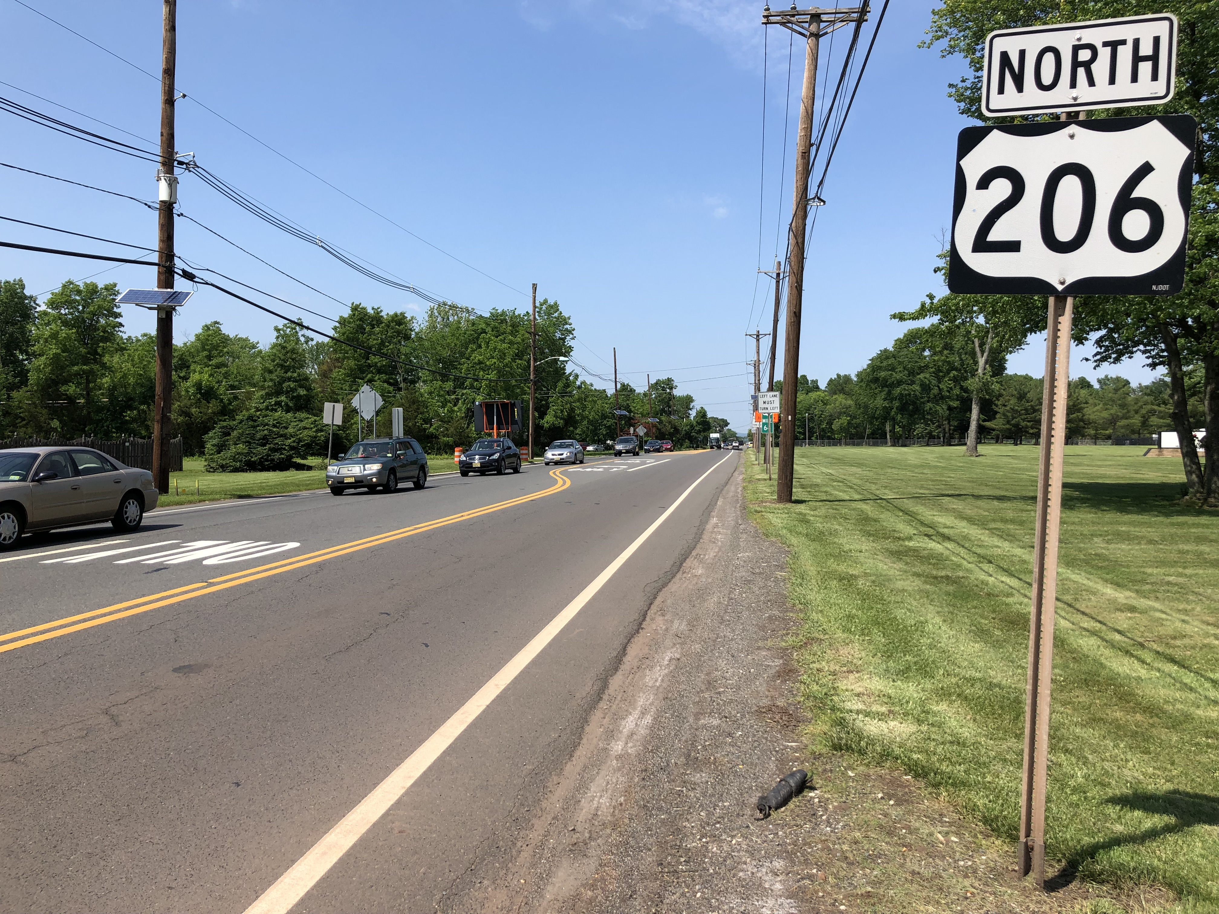 View north along U.S. Route 206 at Hillsborough Road in Hillsborough Township, Somerset County, New Jersey